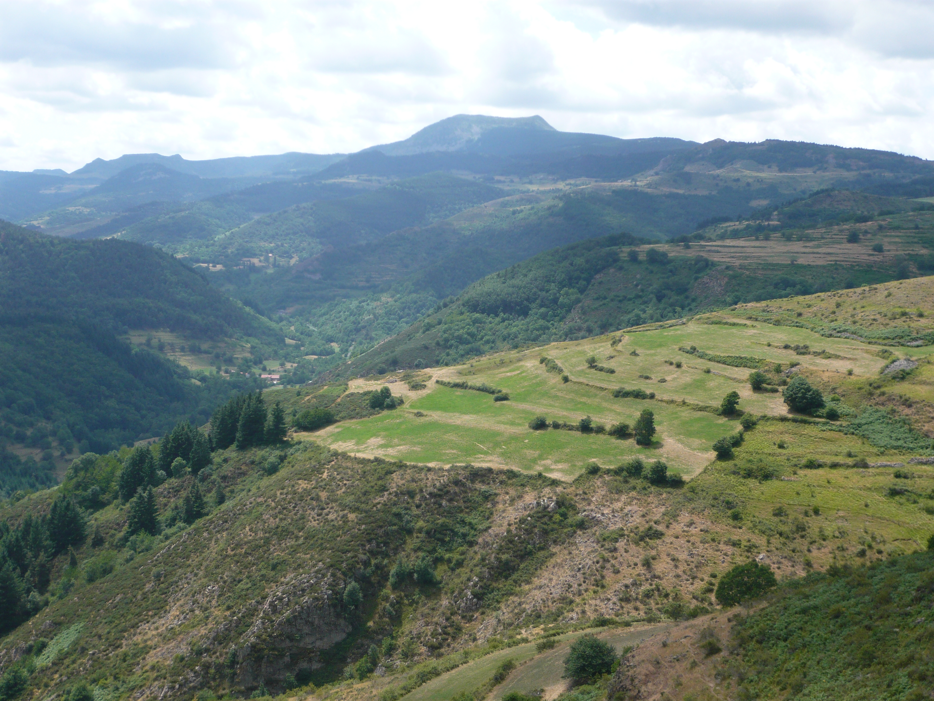 The landscape around Saint-Clément (Ardèche, France). July 2010.